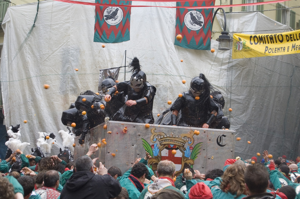 The Tuchini team at the Borghetto... the most incredible piece of battle... amazing!